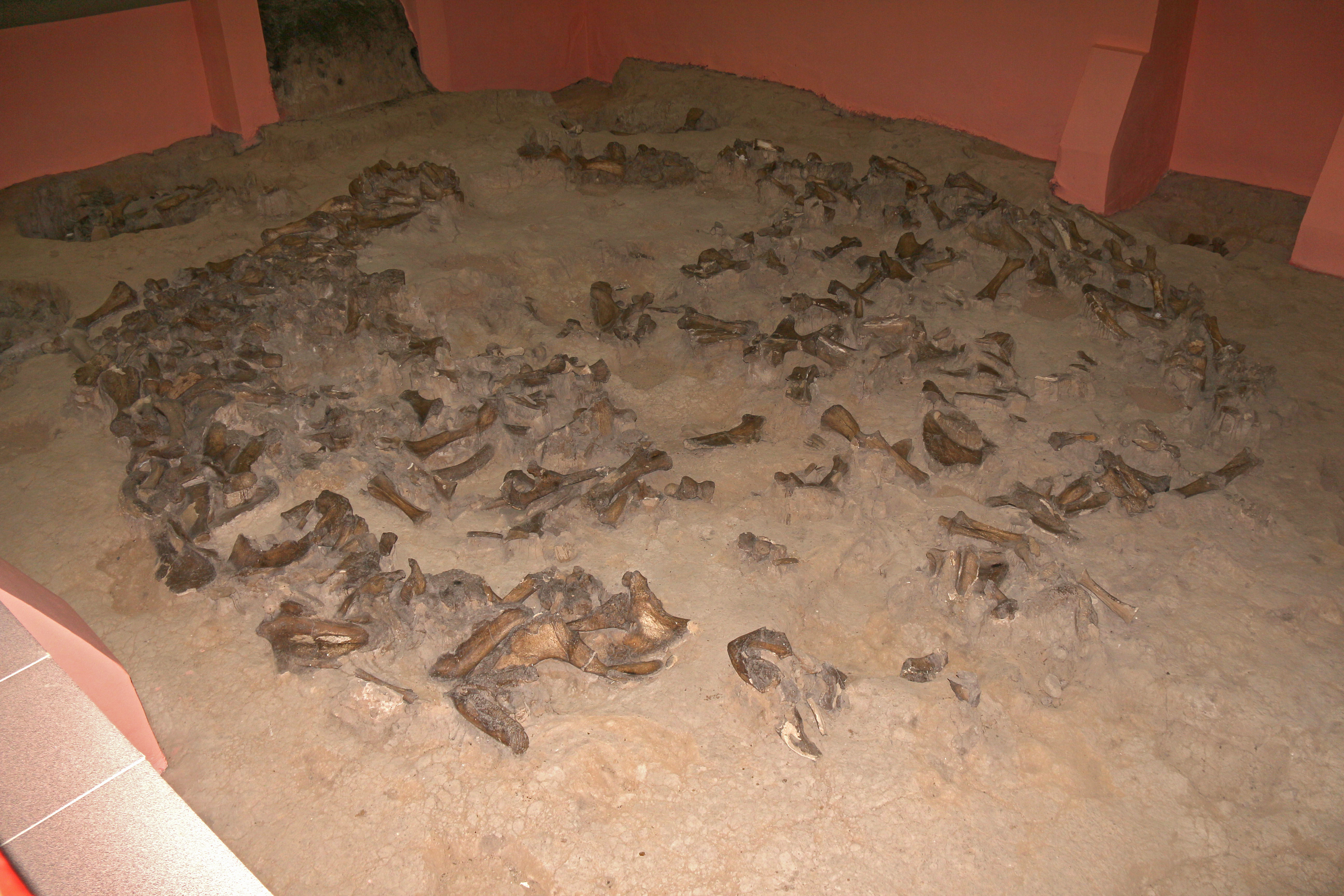 Dwellings foundation in Kostenky.